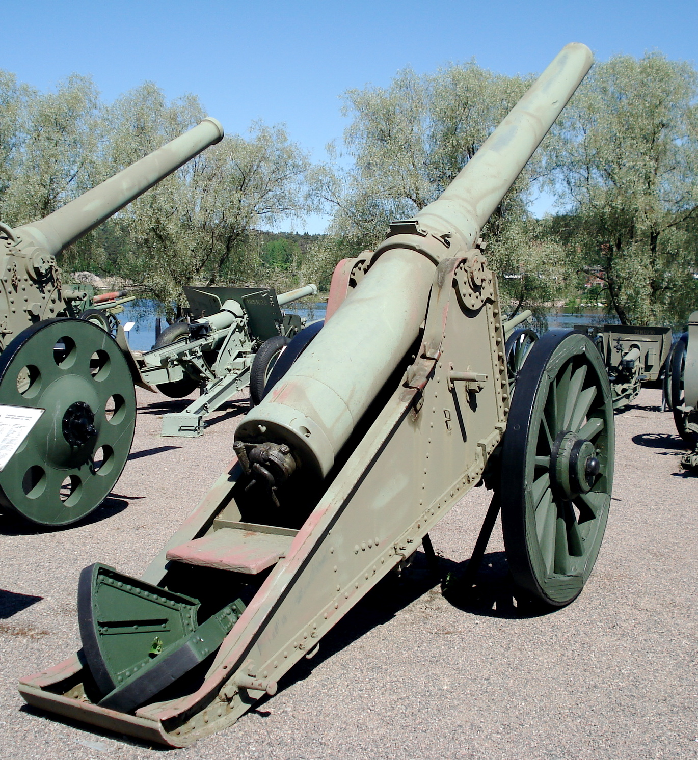 Russian 6 inch 200 pood siege gun model 1904. This particular gun was manufactured in Perm in 1908. Displayed in Hämeenlinna Finnish Artillery Museum. Photo taken on June 18, 2006. Source: Photo by me, User:Balcer.